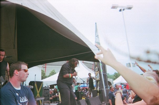 Skindred performing at the 2005 Warped Tour in Minneapolis